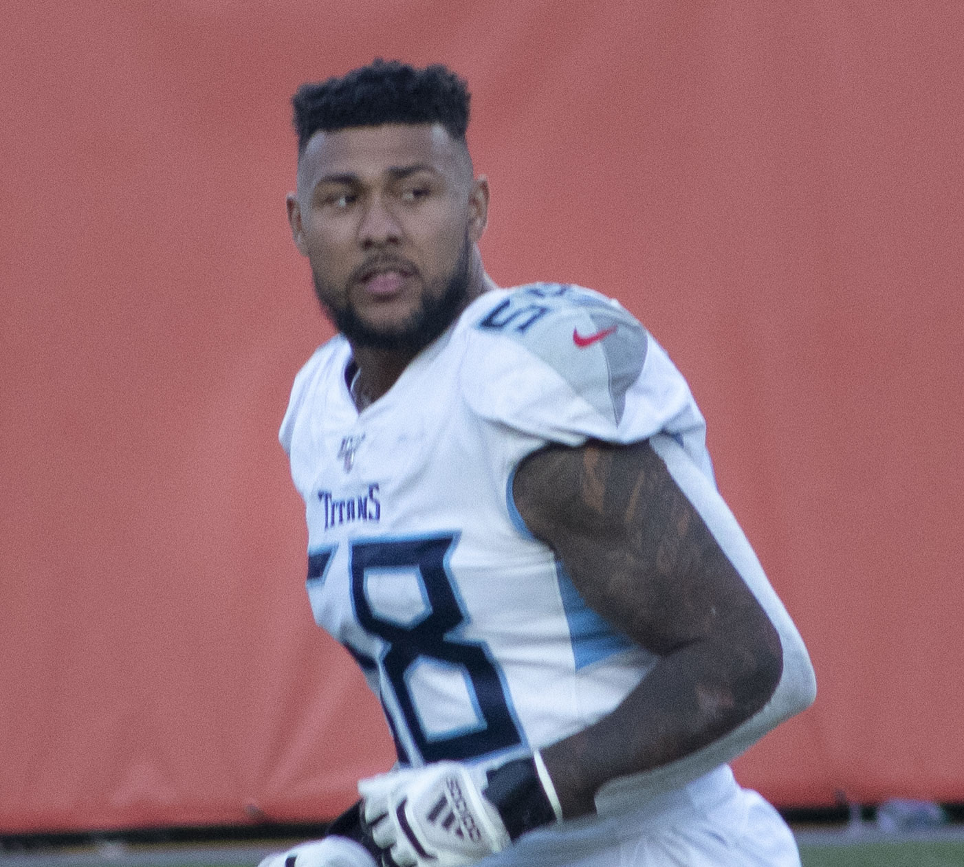 Landry with the Titans on October 13, 2019